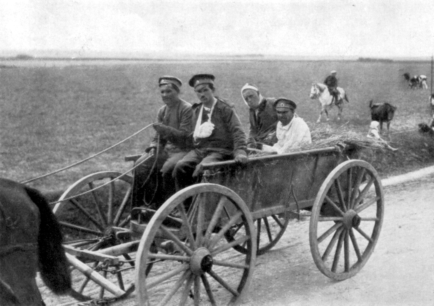 RUSSIAN WOUNDED GOING TO THE REAR. Motor ambulances are a rare luxury in Russia and the wounded are frequently two and three days in peasant's carts before they reach the railhead or base hospitals.